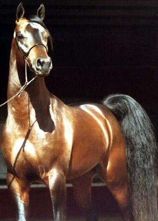 from